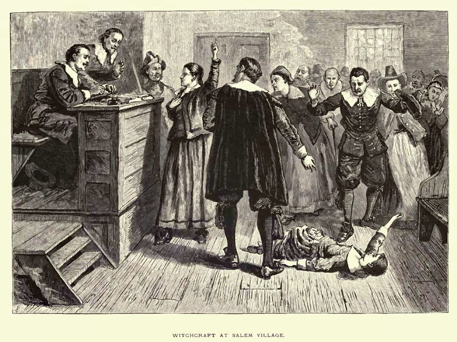 Salem Witchcraft Trial.